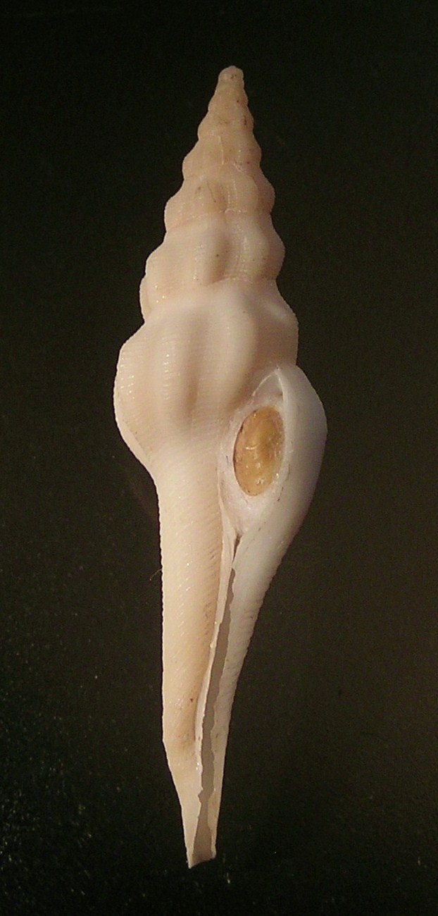 Pseudolatirus clausicaudatus (Hinds, 1844) , a spindle snail from the family Fasciolariidae; South Africa